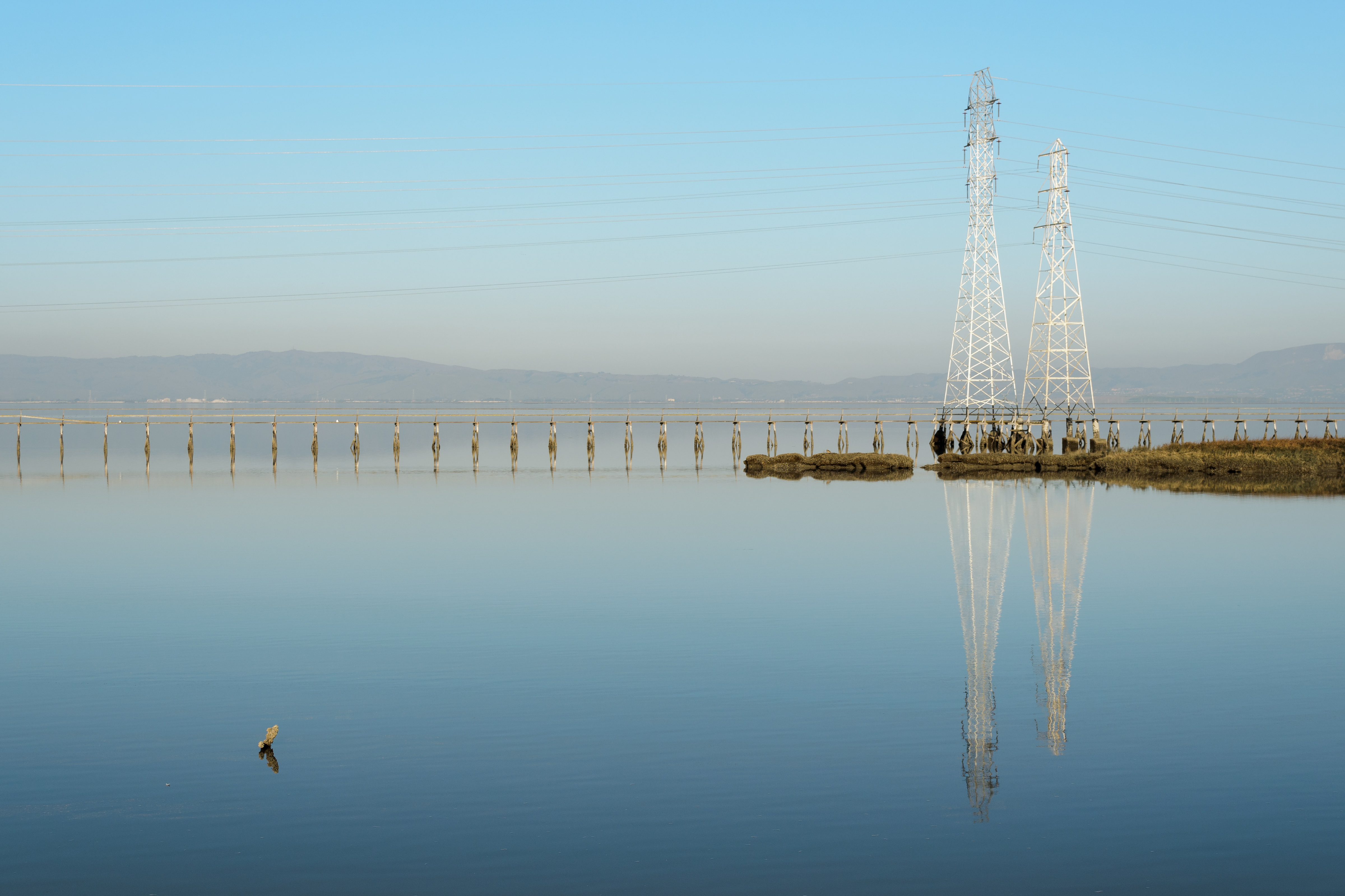 Power lines, Baylands Nature Preserve, Palo Alto, California.